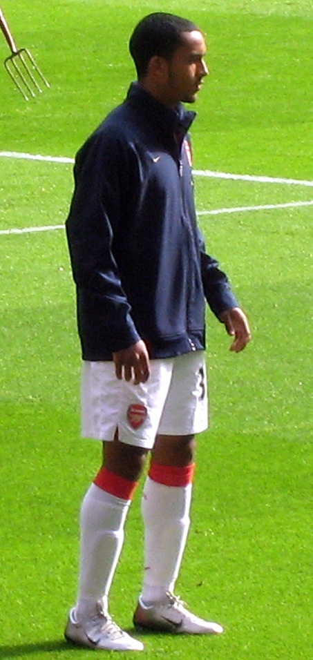 Theo Walcott.